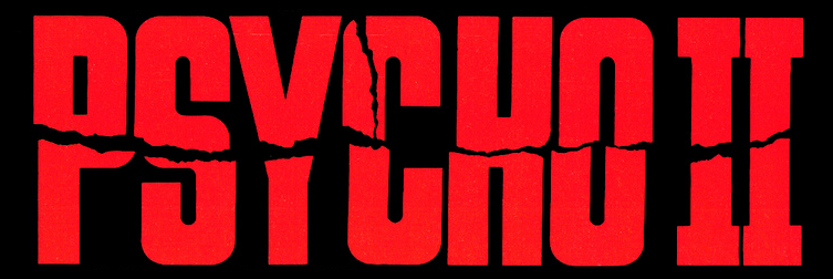 Official logo of the movie Psycho II